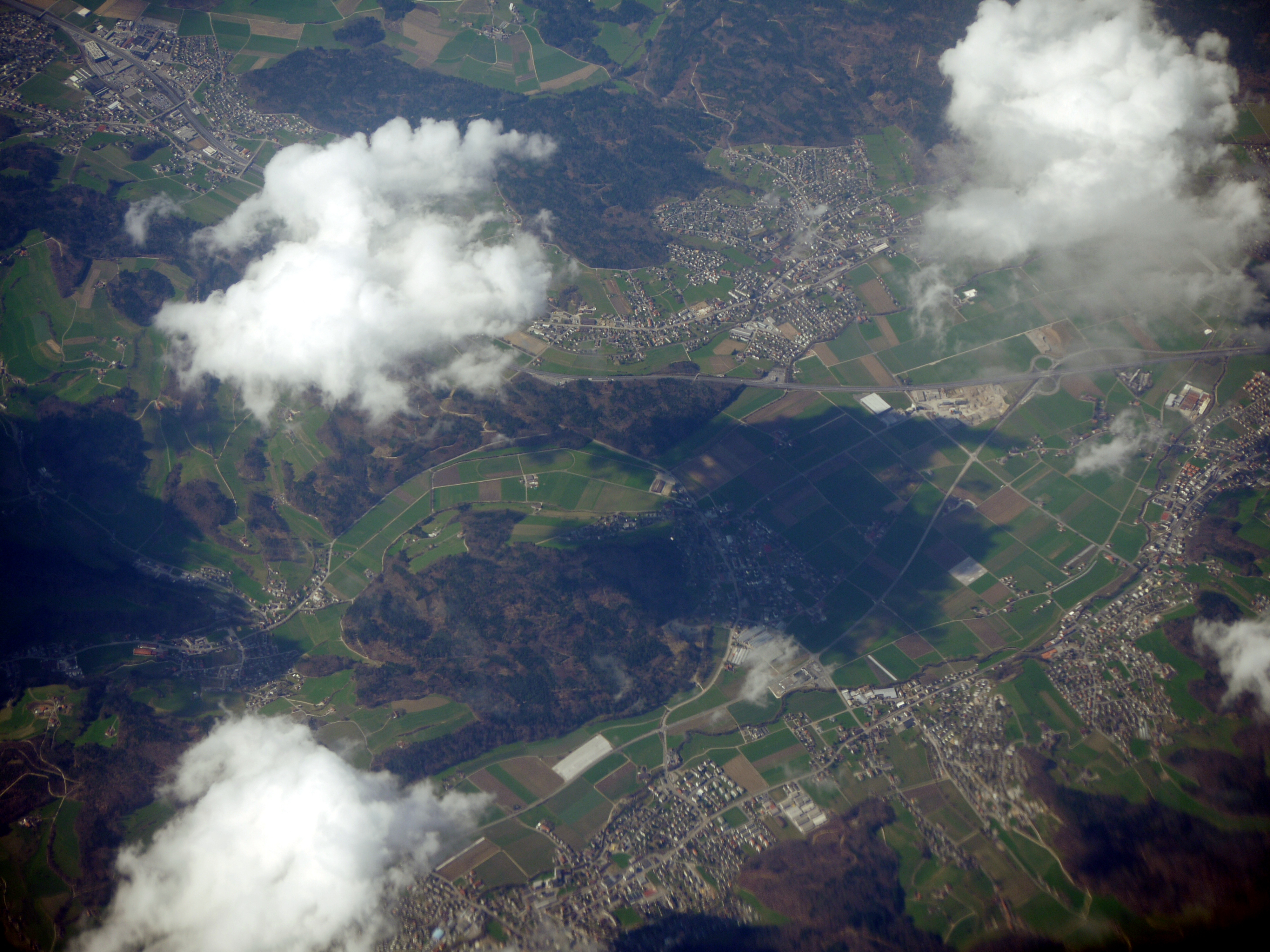 Safenwil and Kölliken, photograph taken from the sky, on the fly line between Marseille and Stockholm.